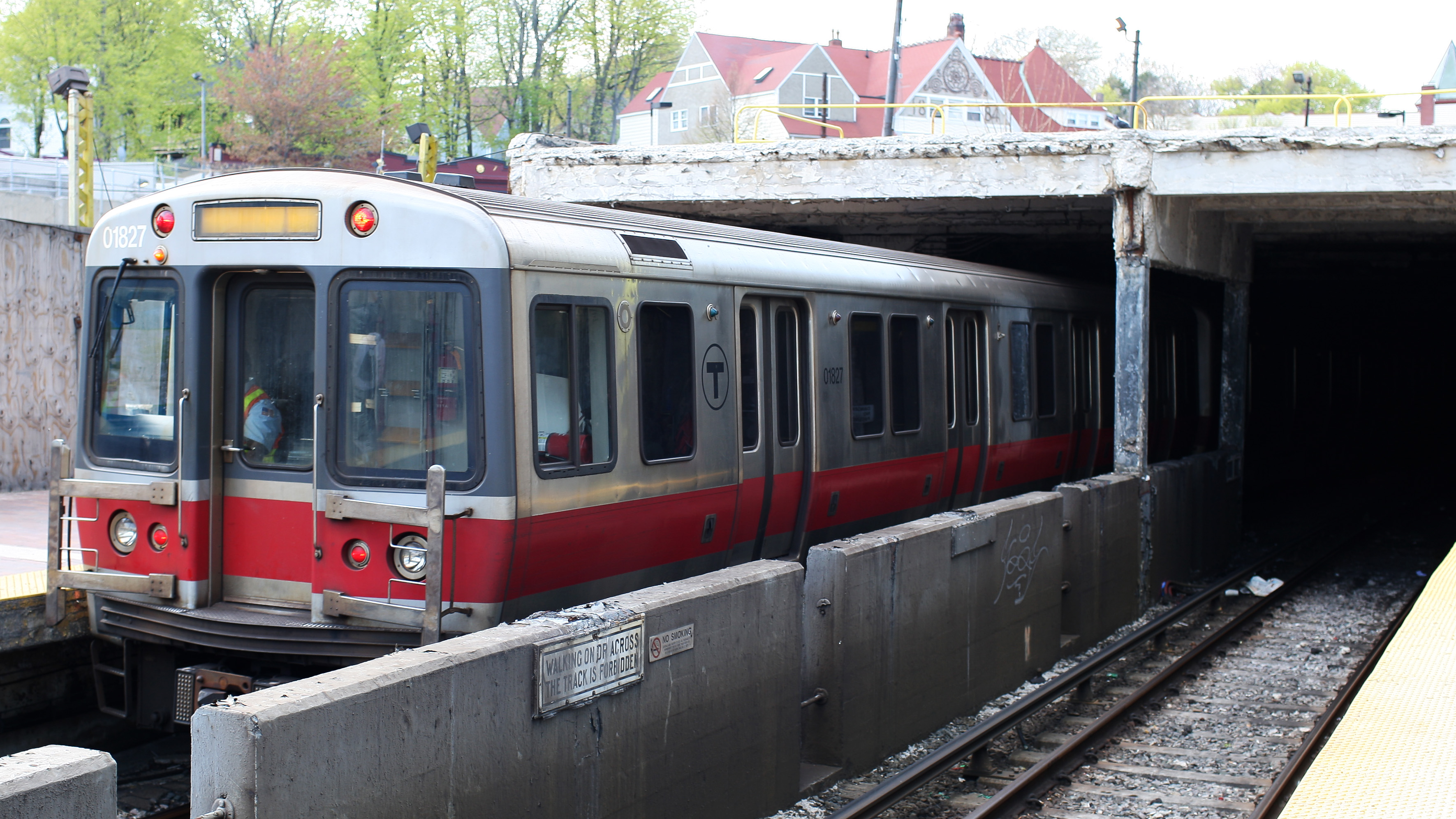 An outbound Red Line train arrives at the under-renovation Ashmont station in May 2008